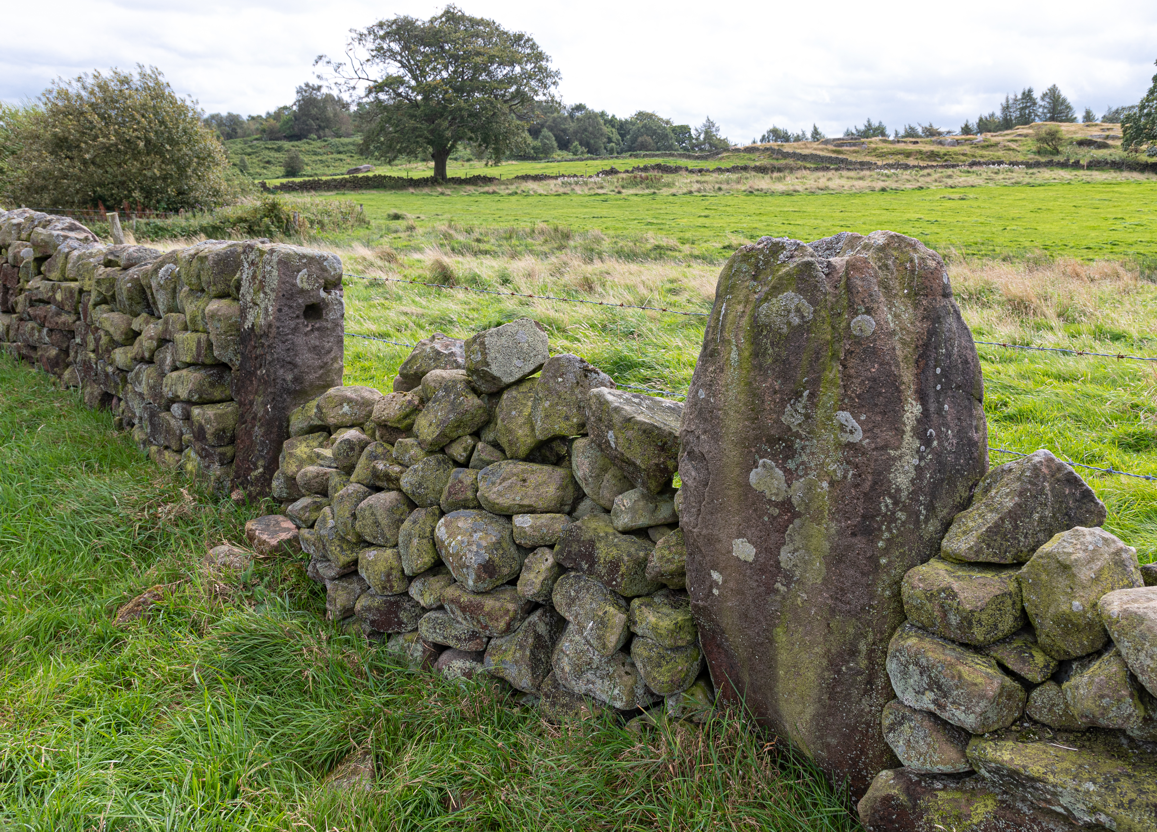 Nine Stones Close, Derbyshire; removed upright in field gate (as this stone is not in its original location, it is not included within the scope of the the official listing) Wikidata has entry Q14949375 with data related to this item.